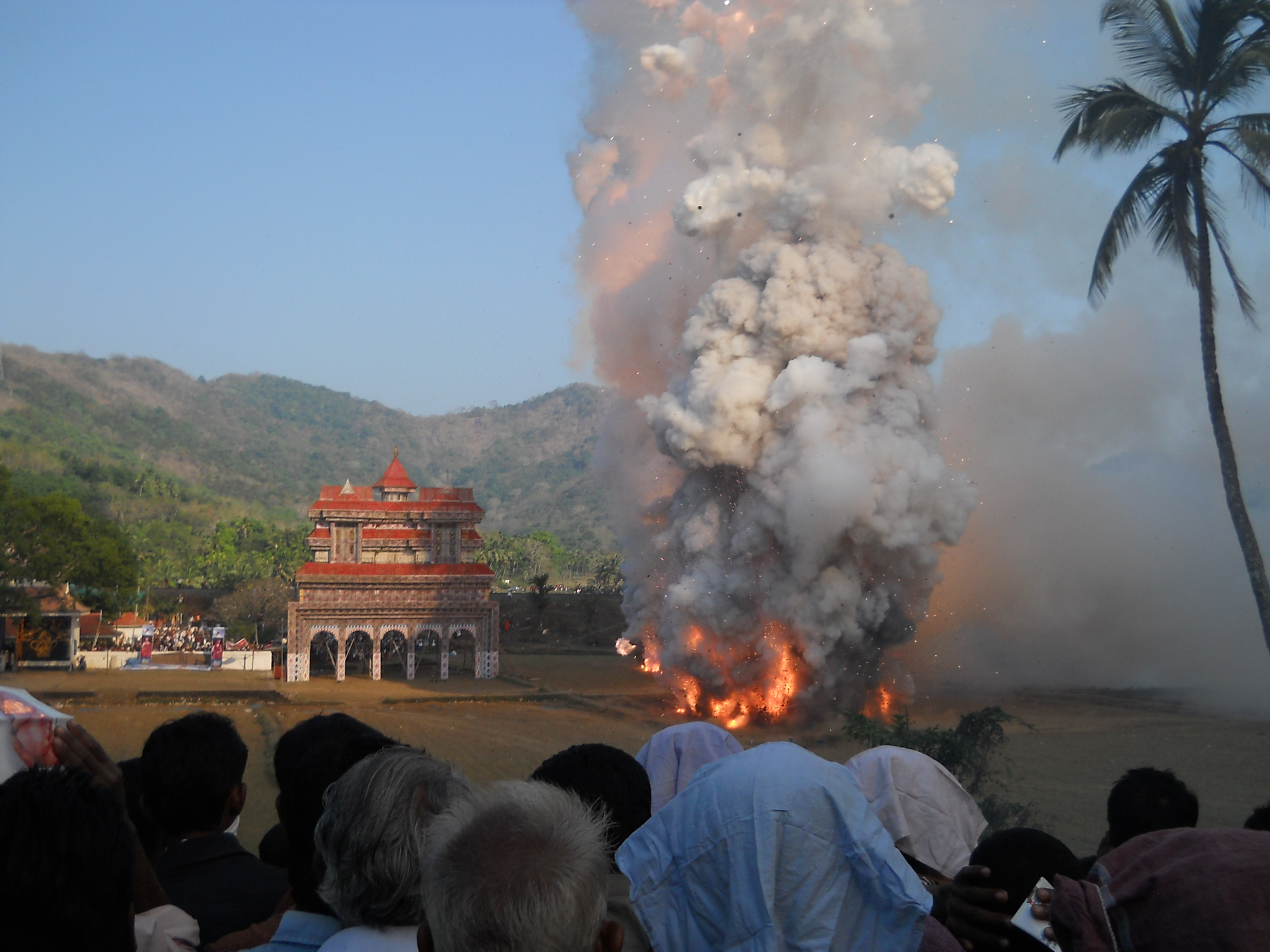 Fire works at Uthralikkavu Pooram